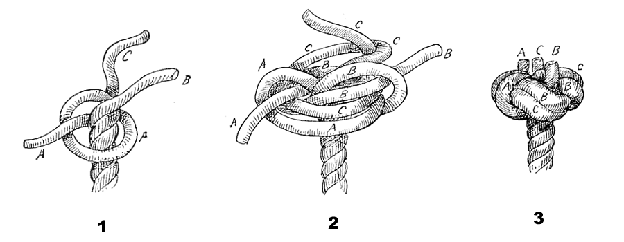 Making of (1) and completed (2) Matthew Walker knot.